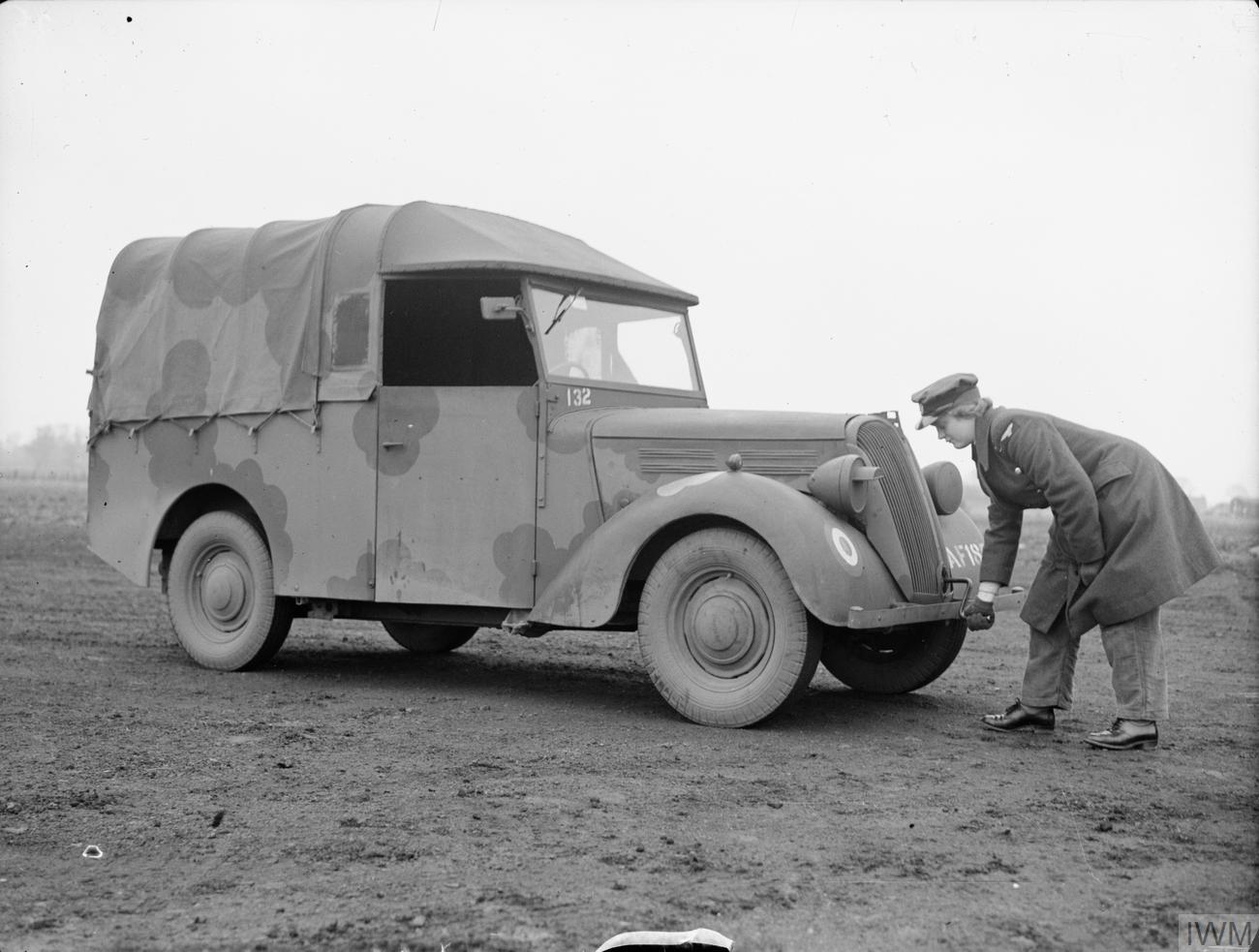 The Women's Auxiliary Air Force , 1939-1945. A WAAF driver turns the starting handle of a Standard 5-cwt van at Cardington, Bedfordshire.